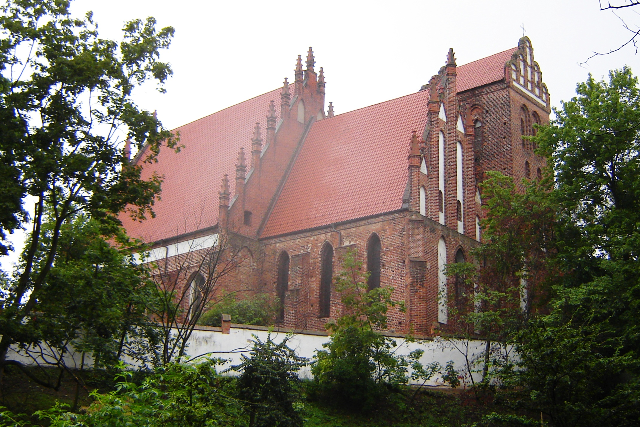 Church of the Transfiguration in Iława, Poland